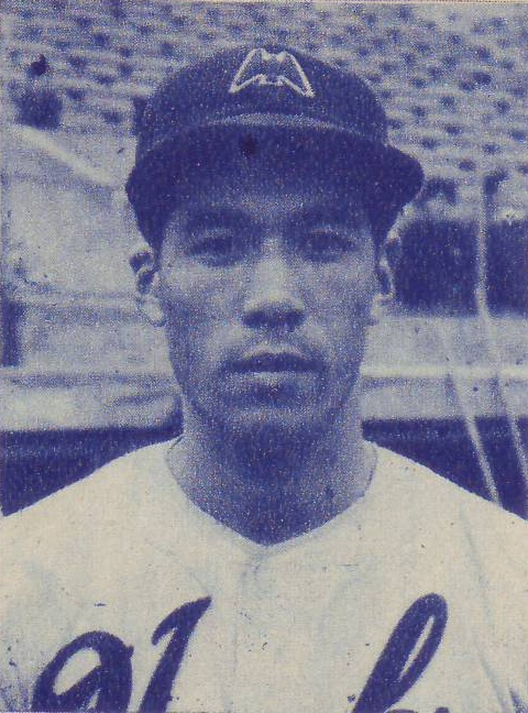 Yuki Ohto (Nankai Hawks. taken in 1955.